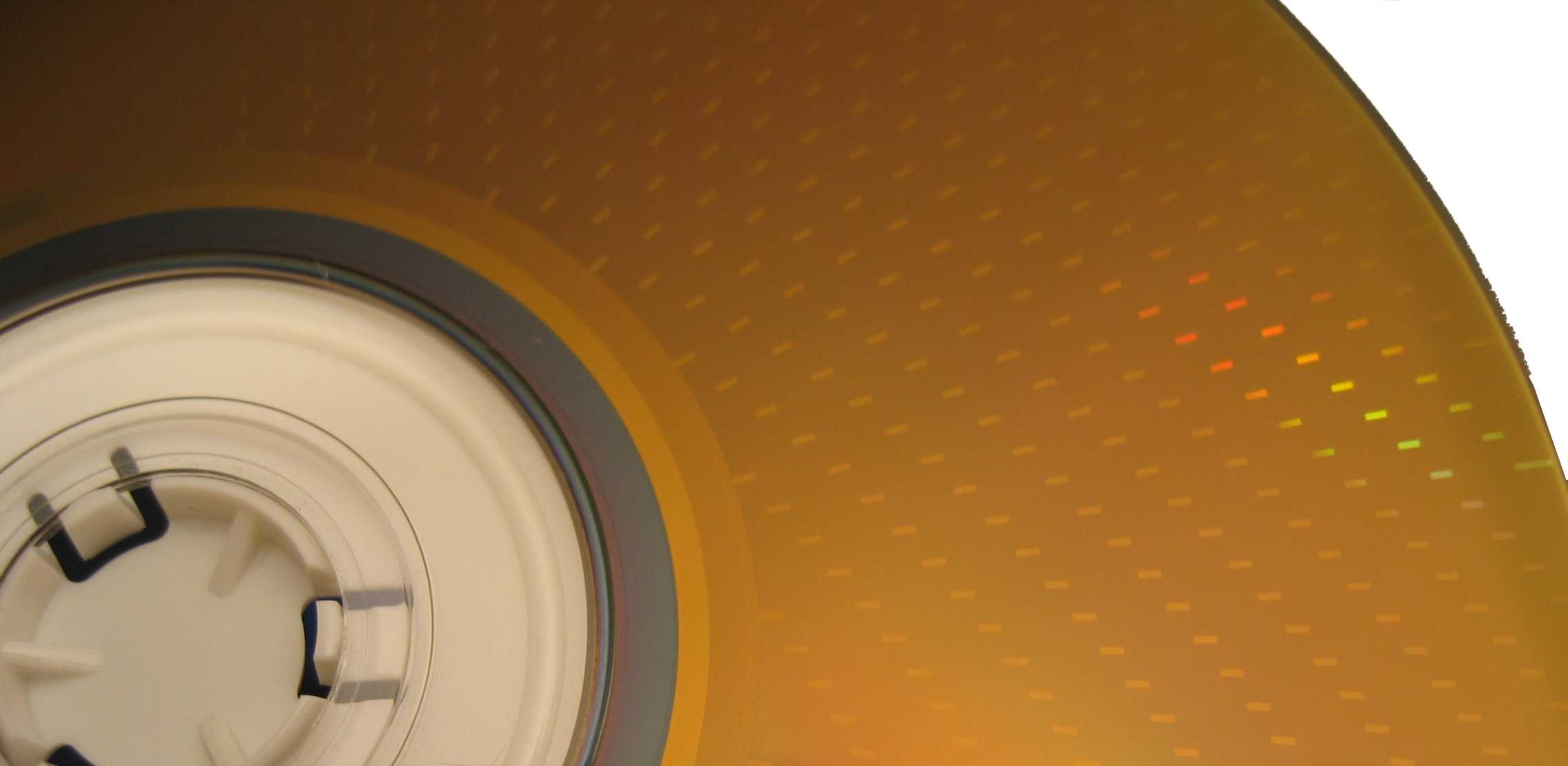 A DVD-RAM is easily recognized due to the numerous rectangles on its surface.